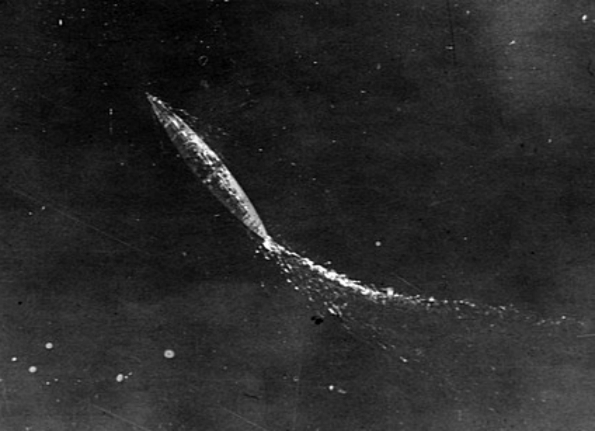 The German battleship Tirpitz manoeuvring in the Kieler Förde, north-east of Strande, Germany.